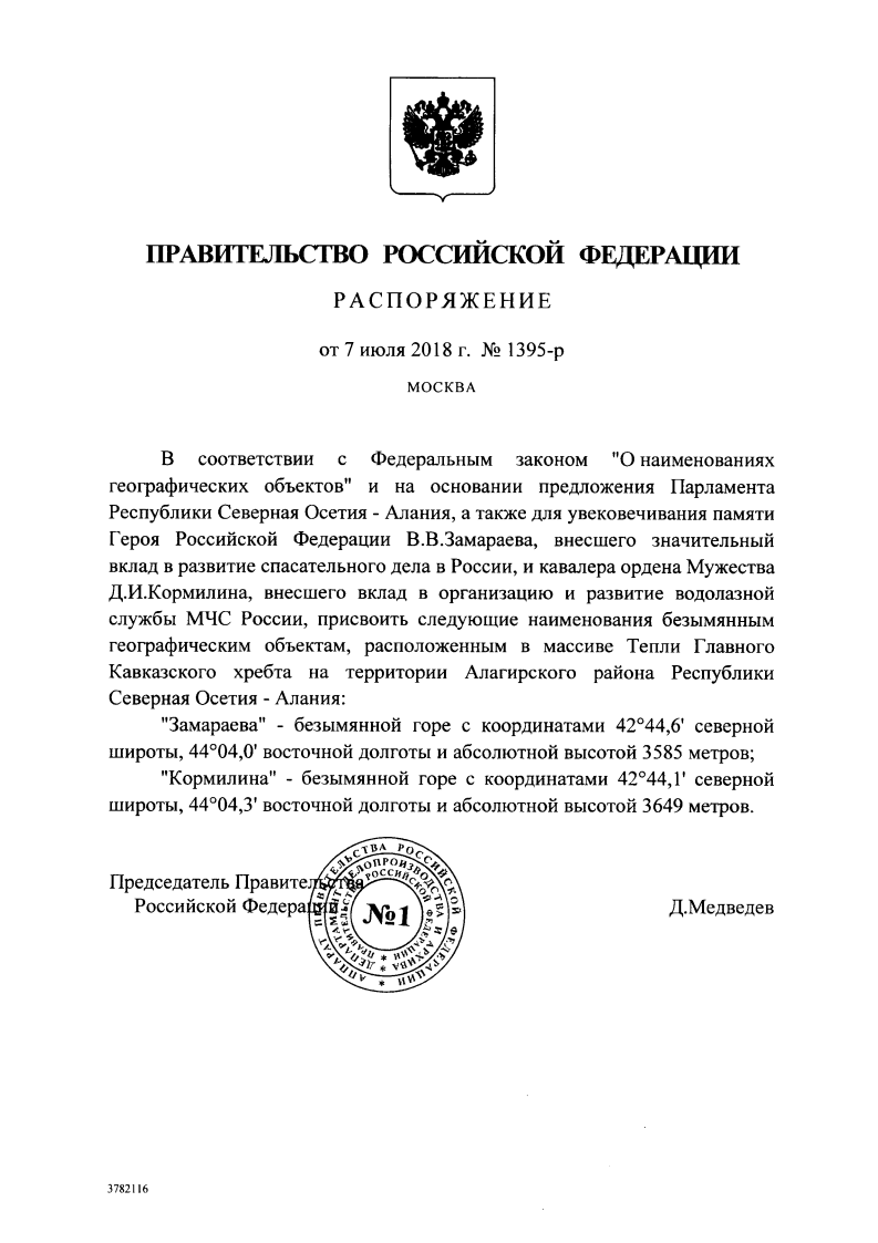 Russian rescuers Kormilin and Zamaraev perished during a terrorist assault in Beslan in 2004. To mounts have been named by the Government to commemorate their memory